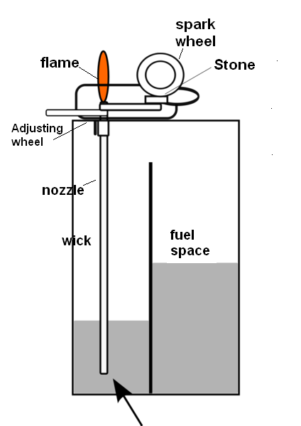 A schematic diagram of a lighter.